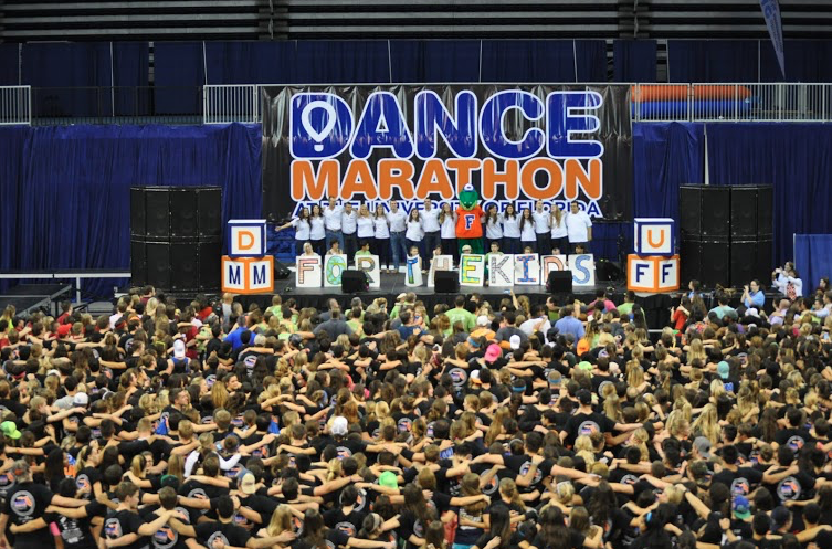 Dancers and the Overall Team all sway together in the closing ceremony of the 2014 event